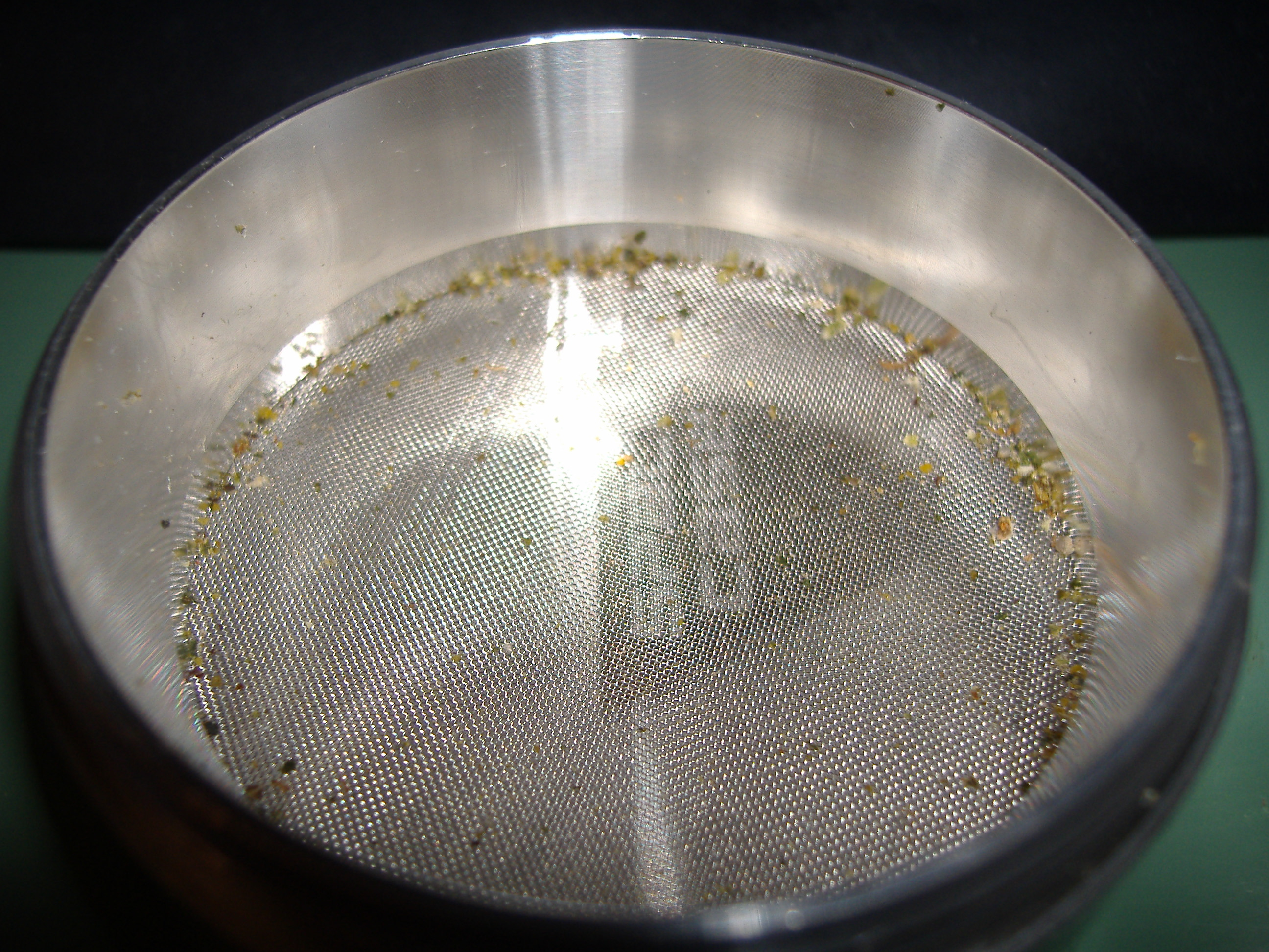 This is a close up of the grill for the pollen catcher in a Space Case grinder. The bottom compartment is visible underneath which is where the keef will be collected.